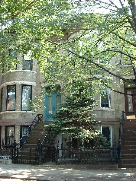 One of the historic homes from the Sunset Park Historic Register District - 653 52nd Street - Brooklyn NY in 1978